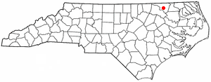 Category:North Carolina Dot Maps